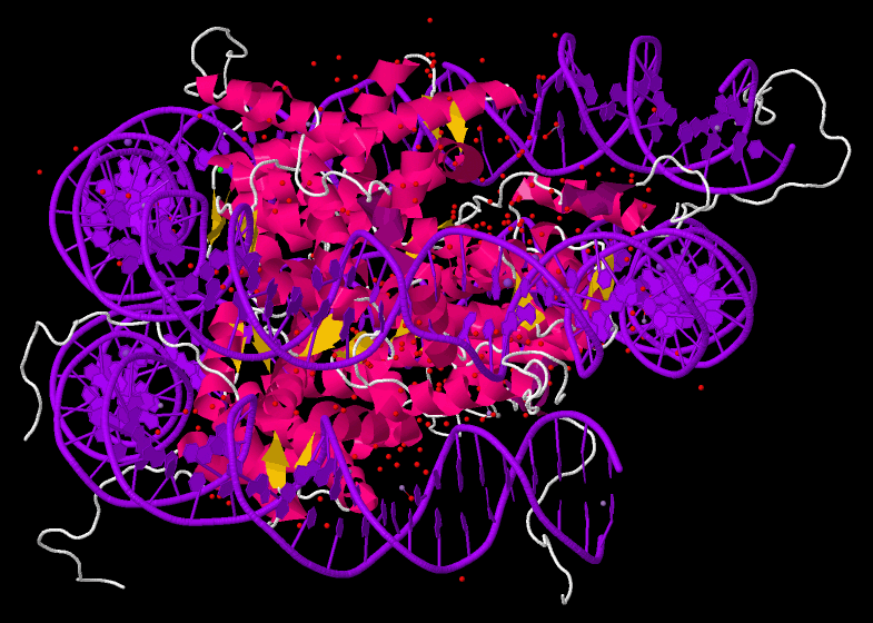 Nucleosome core particle, crystal structure (PDB ID: 1EQZ).This image was created with Jmol (an open-source Java viewer for chemical structures in 3D and Adobe Photoshop Elements.